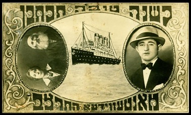 Shanah Tovah, greeting card, Montevideo 1931-1932. Inscribed in Hebrew characters: "LeShanah Tovah Tikatevu" (Hebrew) and "Montevideo" (Yiddish).